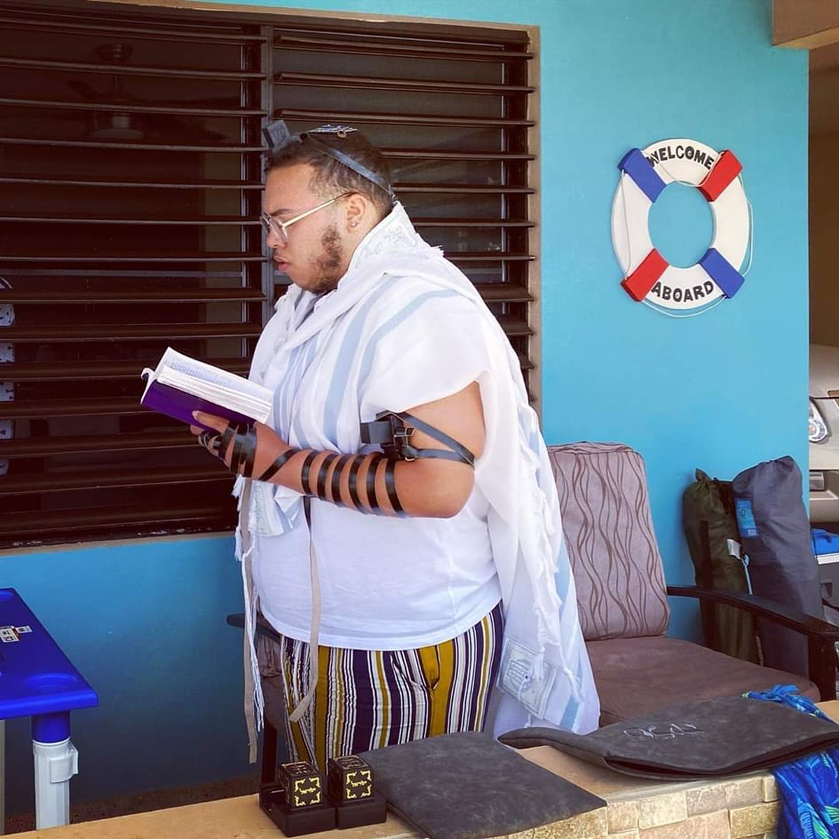 A Puerto Rican Jew does his afternoon prayer using tefillin.